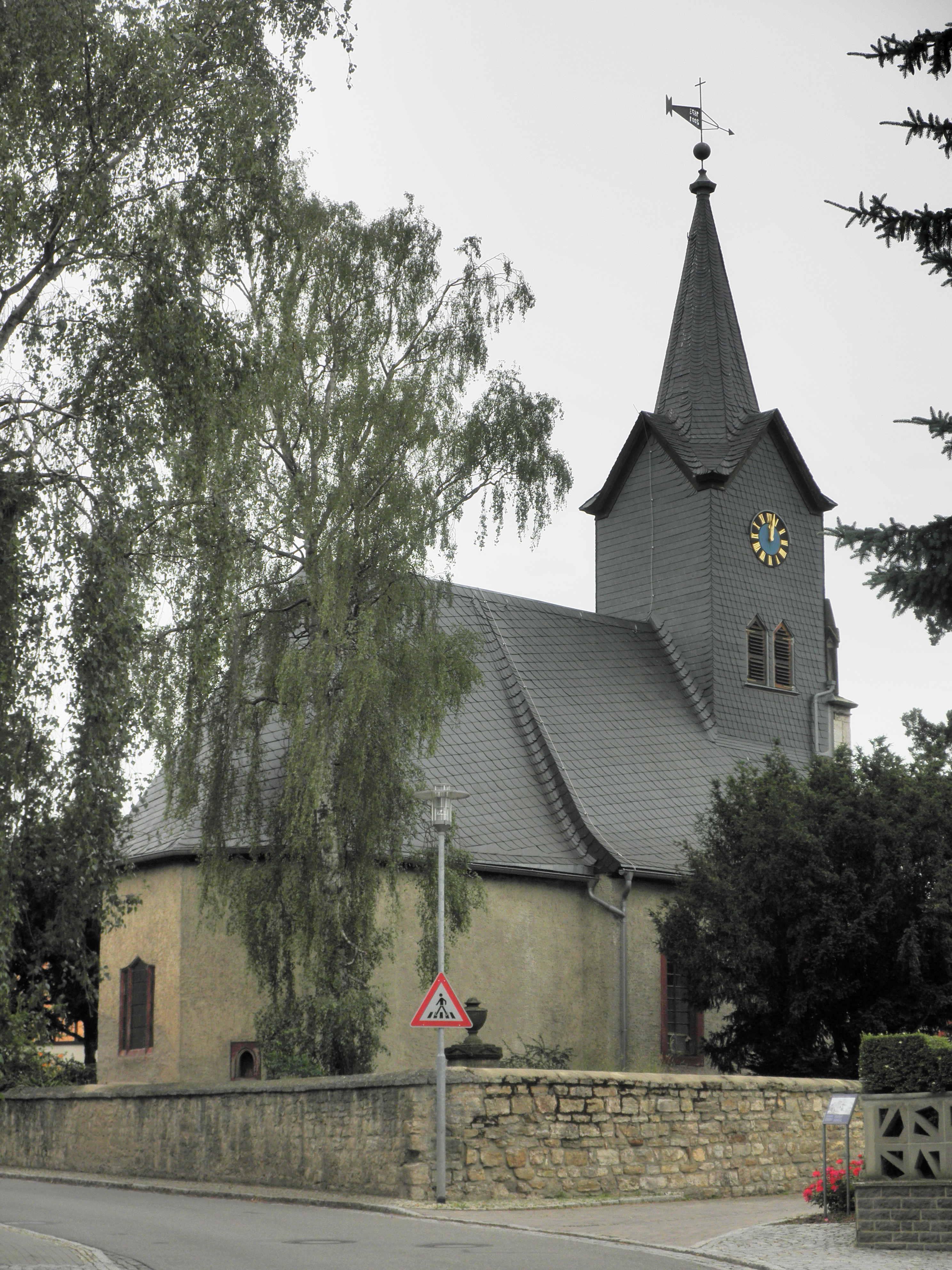 Church in Kromsdorf in Thuringia